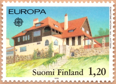 Photograph of the 1978 Europa stamp, issued on 2 May in Finland.